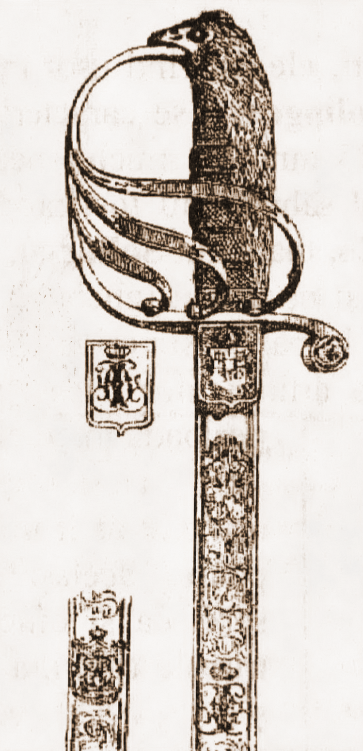 Sword for the oficers of Romanian Armed Forces, model 1893